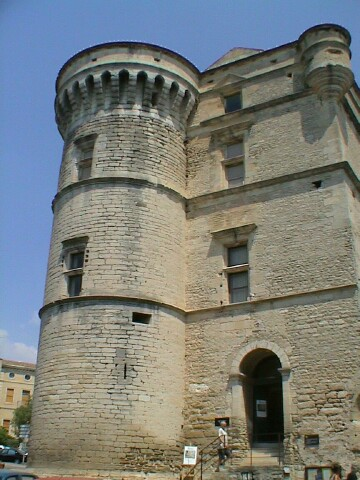 The chateau of Gordes photographed by Jeremy J. Shapiro.